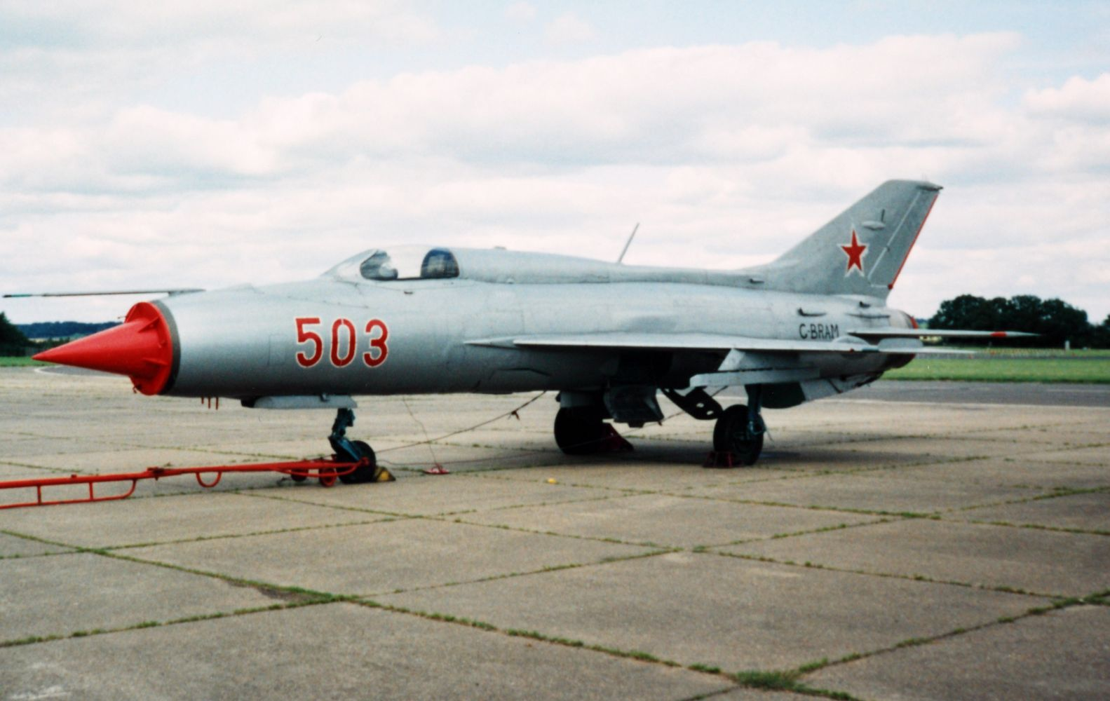 Catalog #: 15_002239 Title: Mikoyan-Gurevich Mig-21 Date: 1992 ADDITIONAL INFORMATION: North Weald Air Base Collection: Charles M. Daniels Collection Photo Album Name: Soviet Aircraft Page #: 35 Tags: Soviet Aircraft, Charles Daniels, PUBLIC COMMONS.SOURCE INSTITUTION: San Diego Air and Space Museum Archive